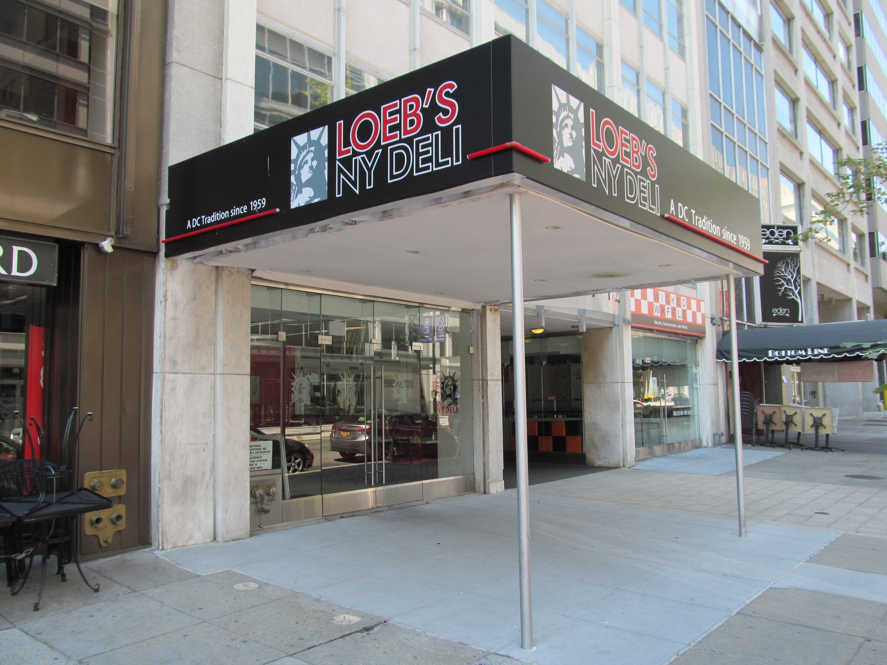 Loebs NY Deli, Washington D.C.